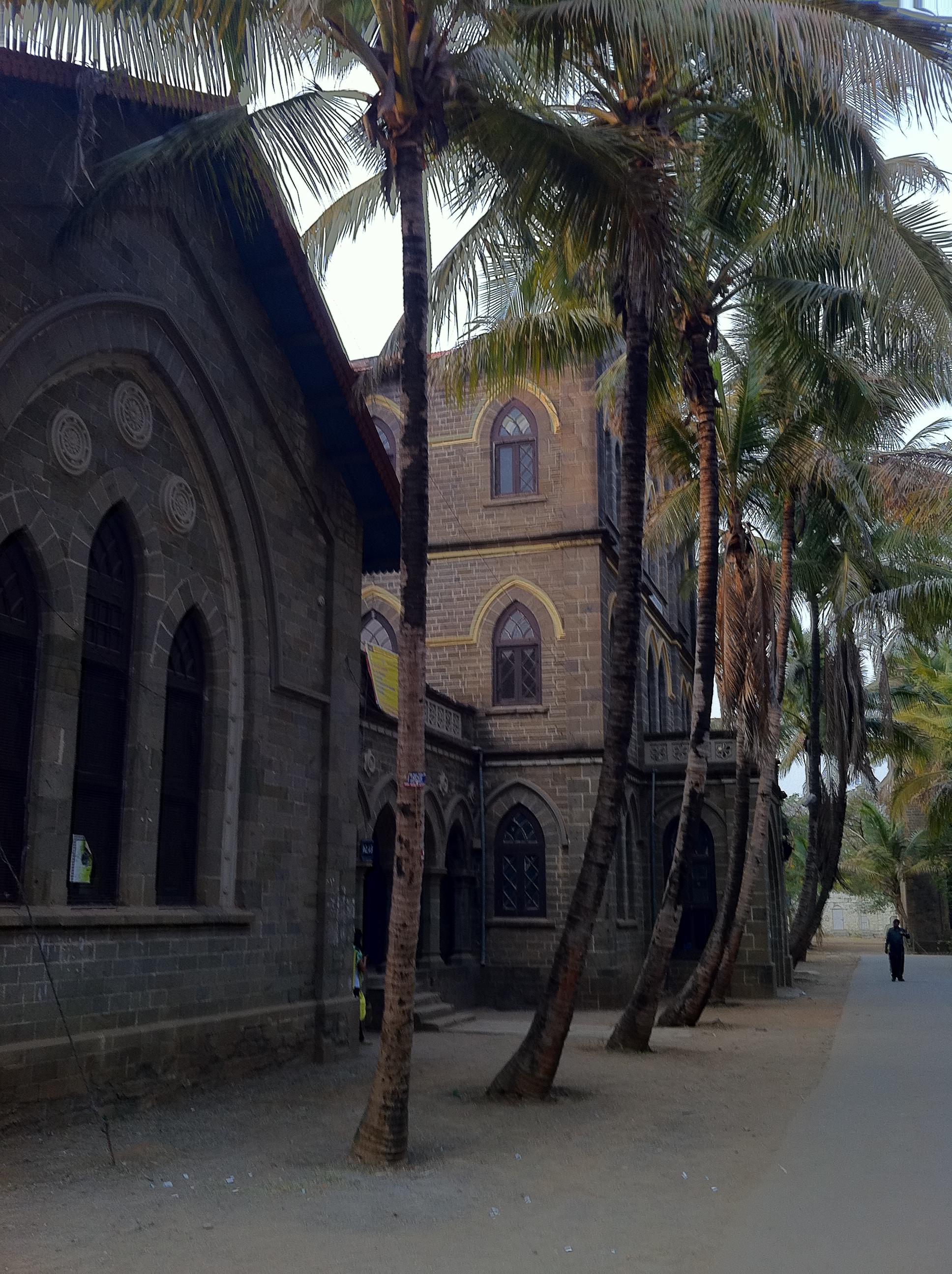 Fergusson College Amphitheatre1